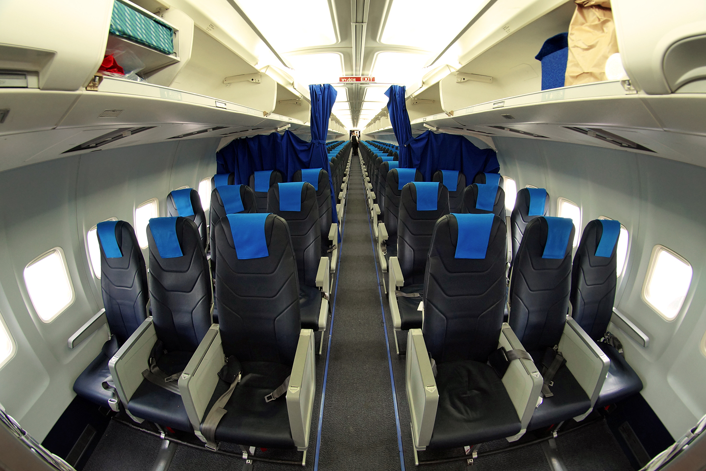 Cabin of the LOT's Boeing 737-400 SP-LLE after retrofit